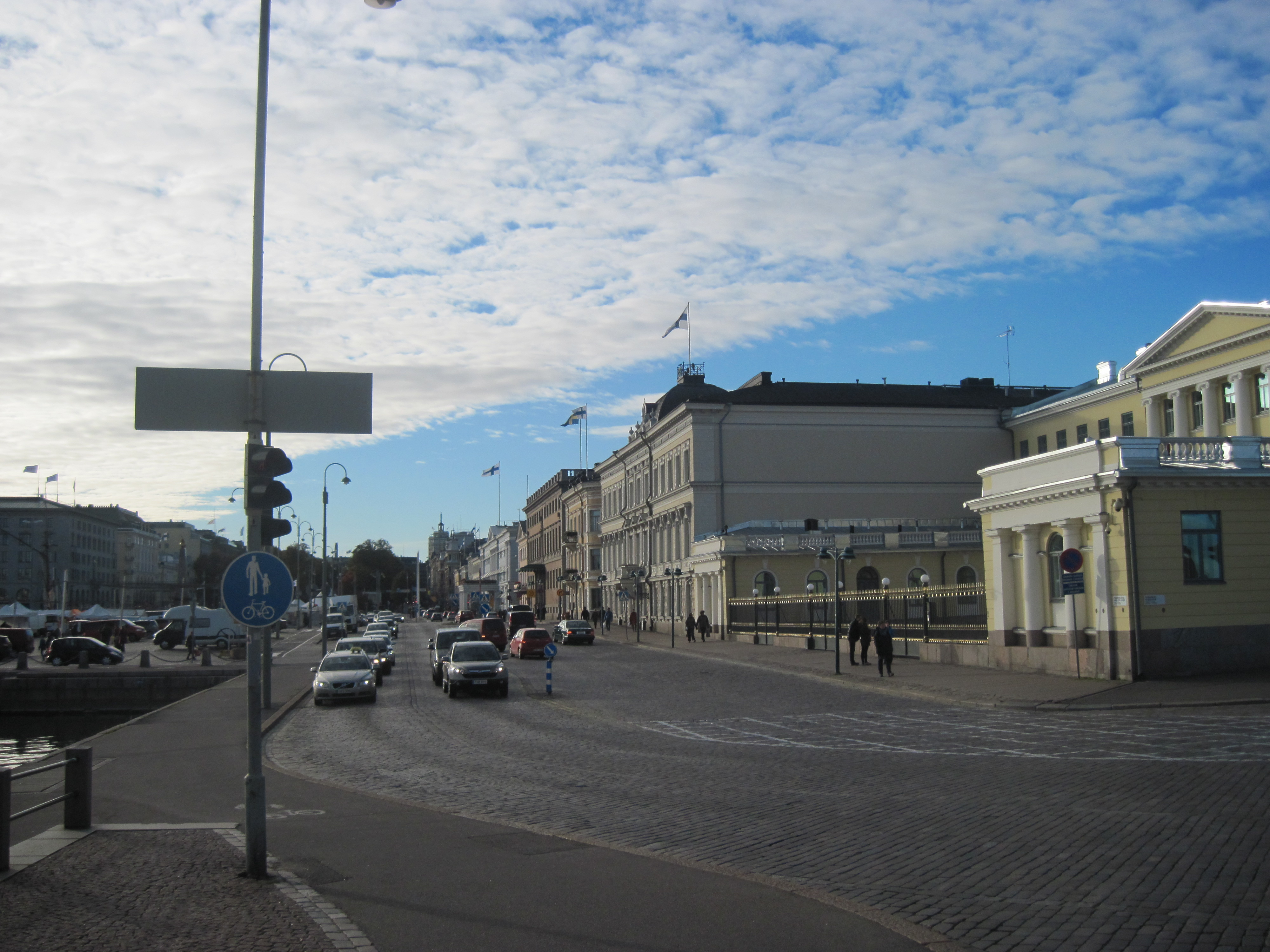 Pohjoisesplanadi (North Esplanade Street), Helsinki, seen from its Eastern end